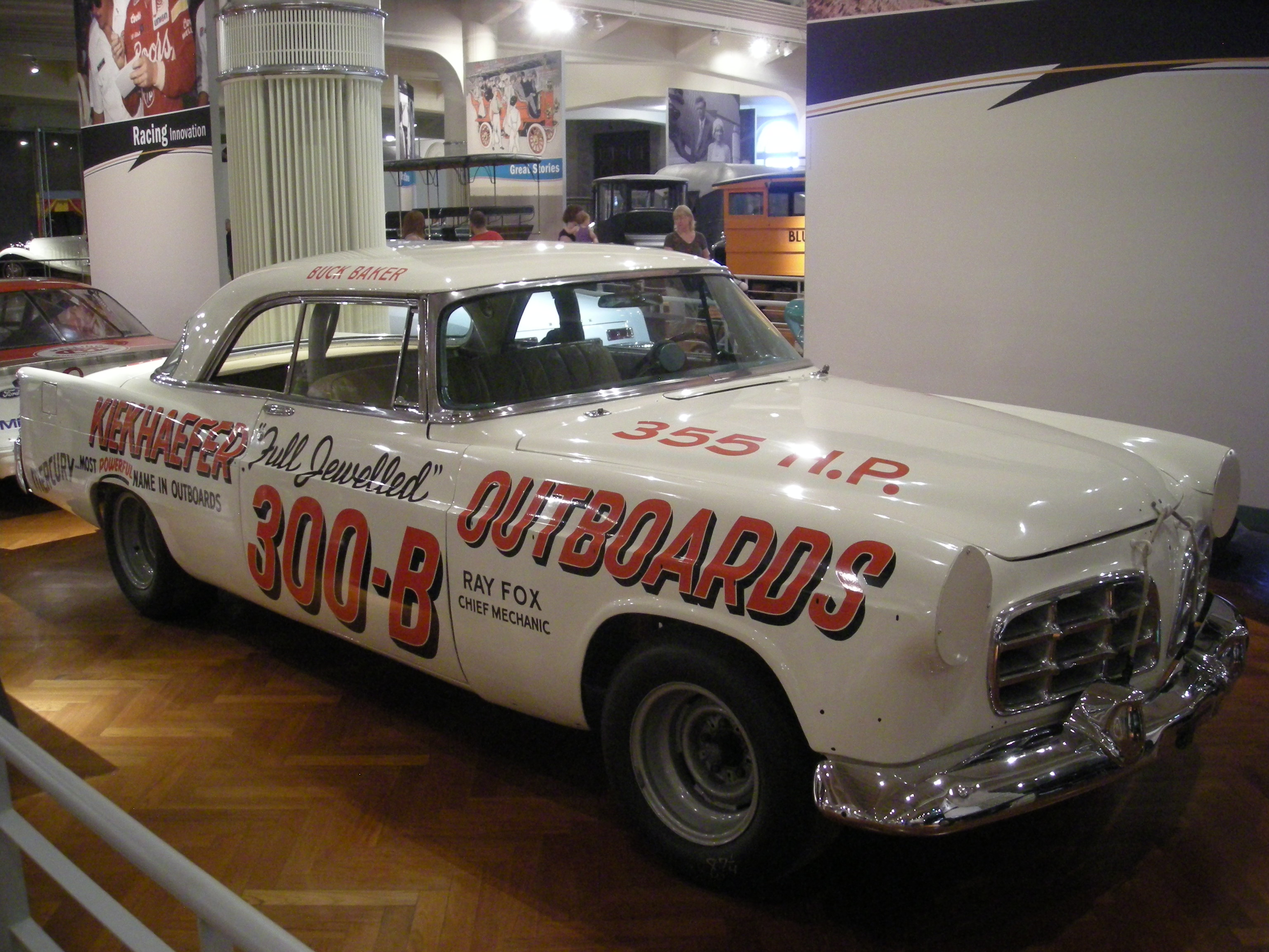 Buck Baker's championship-winning 1956 Chrysler 300-B NASCAR stock car on display at the Henry Ford Museum in Dearborn, Michigan (United States).